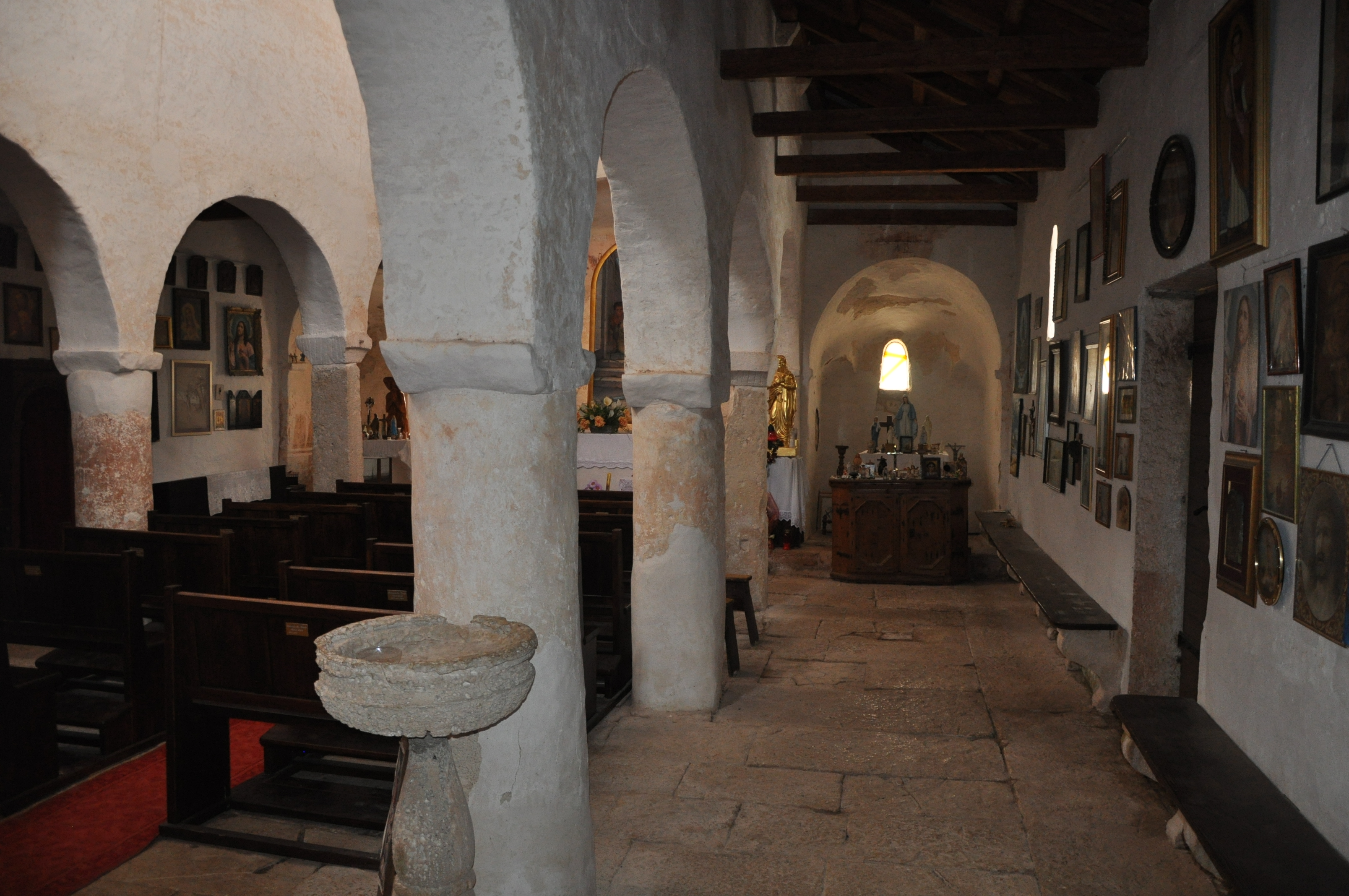 St. Fosca Church, near Peroj, Croatia